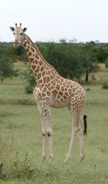 West African giraffe (Giraffa camelopardalis peralta) in Kouré reserve, NIGER